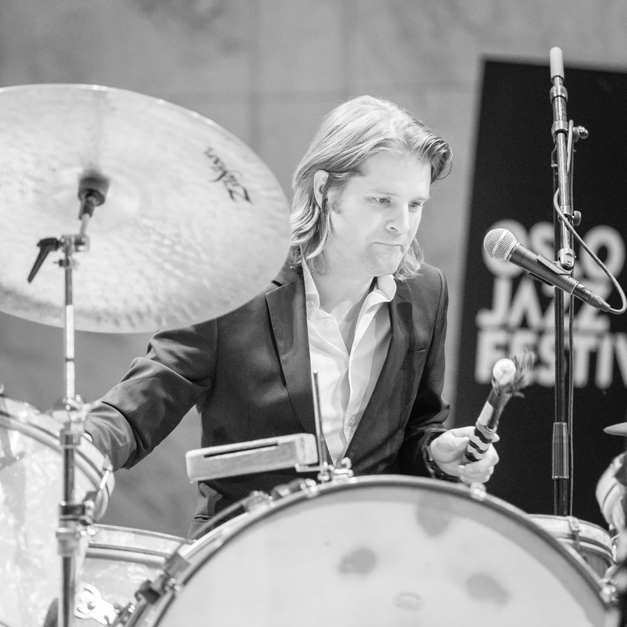 Pål Hausken with Solveig Slettahjell in the University Aula. The concert was part of Oslo Jazzfestival and took place on 14. August 2018 in Oslo. Lineup:Solveig Slettahjell (piano and vocal)Pål Hausken (percussion)